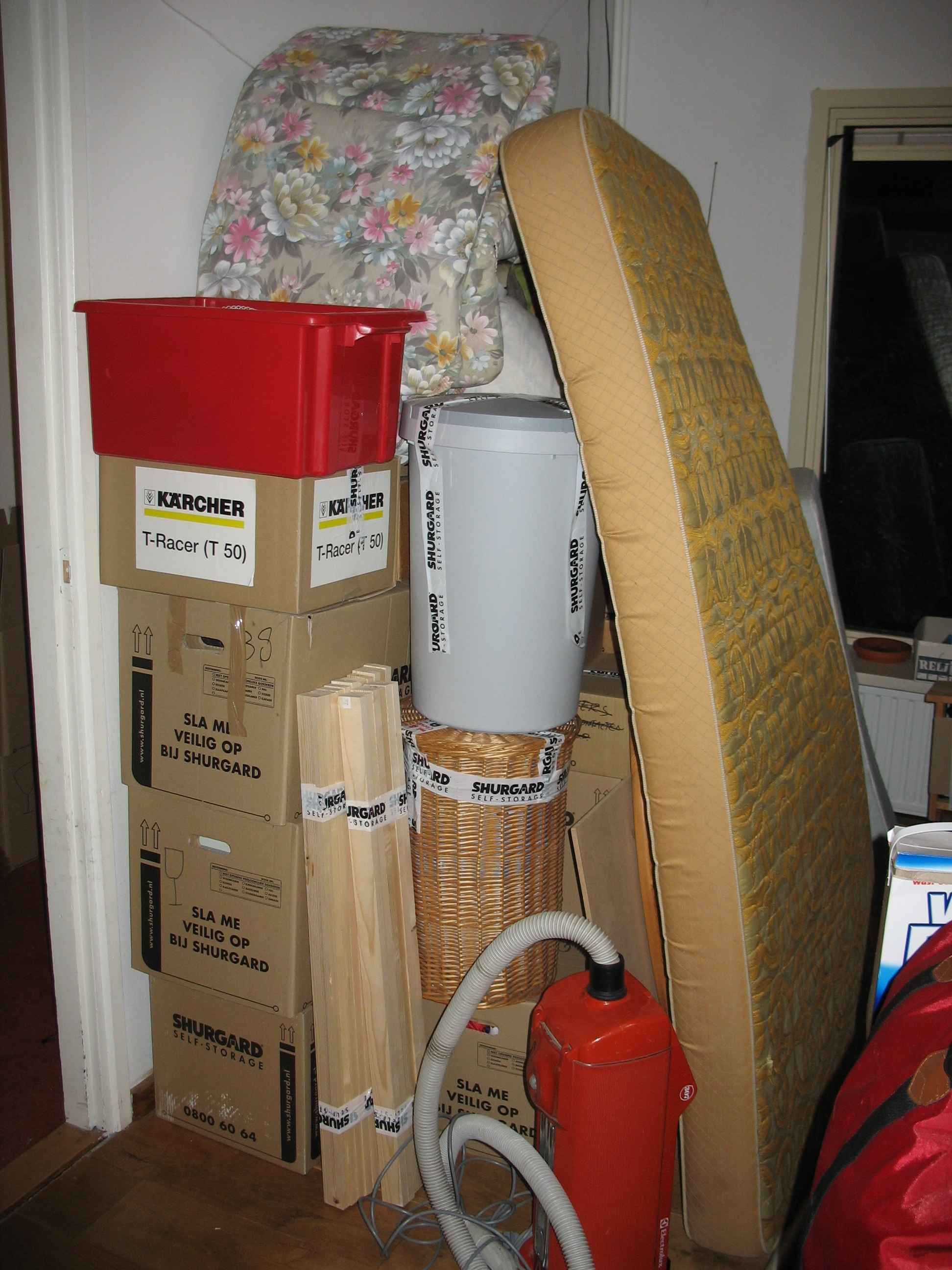 Self made picture of "Moving in Progress".